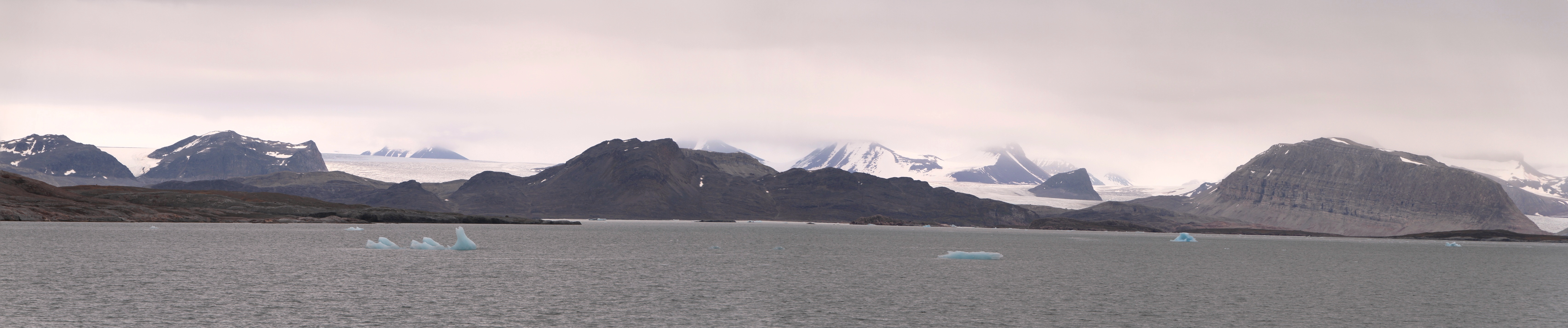 The inner Kongsfjorden (Kings Bay) at Svalbard. Ossian Sars Nature Preserve.